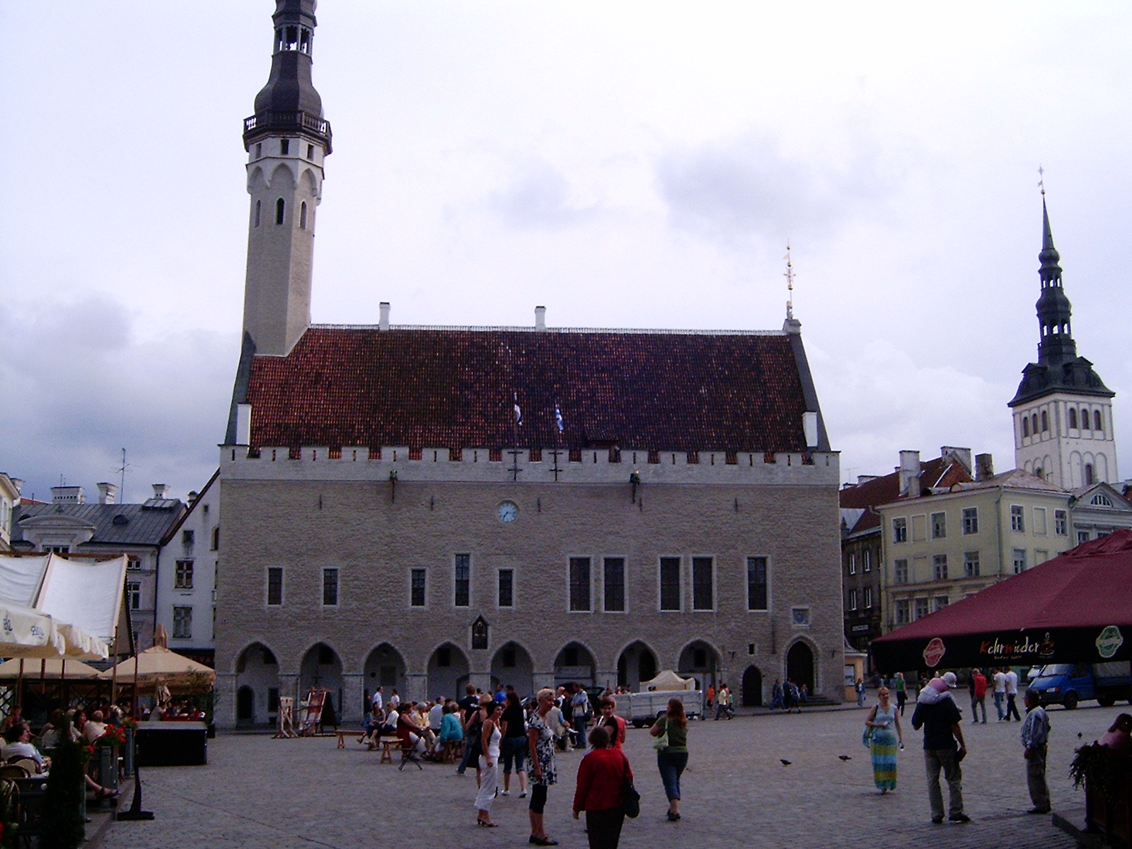 The Tallinn Town Hall